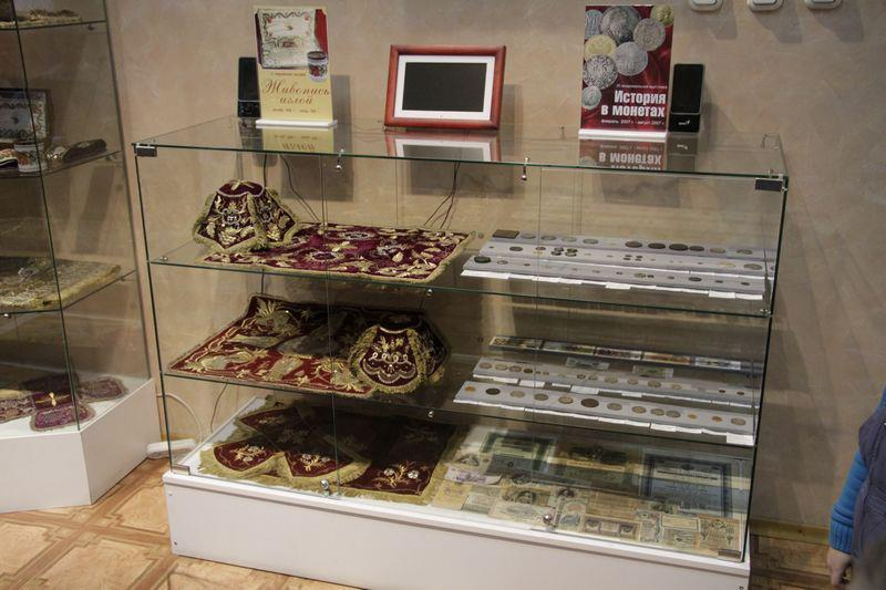 Numismatic exhibition “History of coins”